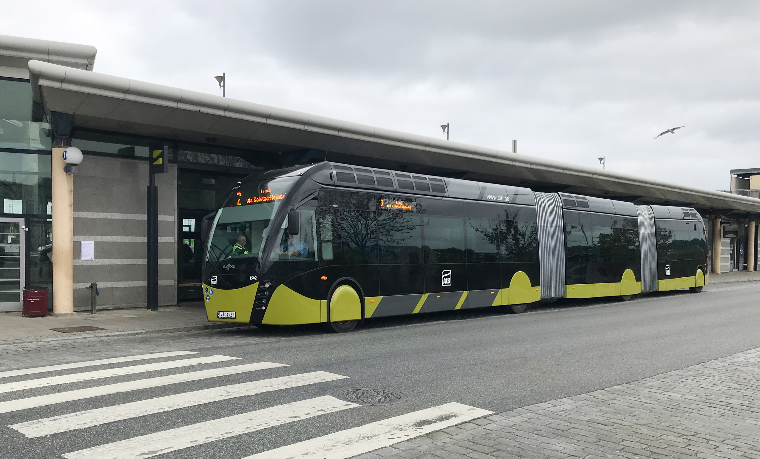 Metrobus in Trondheim, Norway, three days after opening of the Metrobus-system.